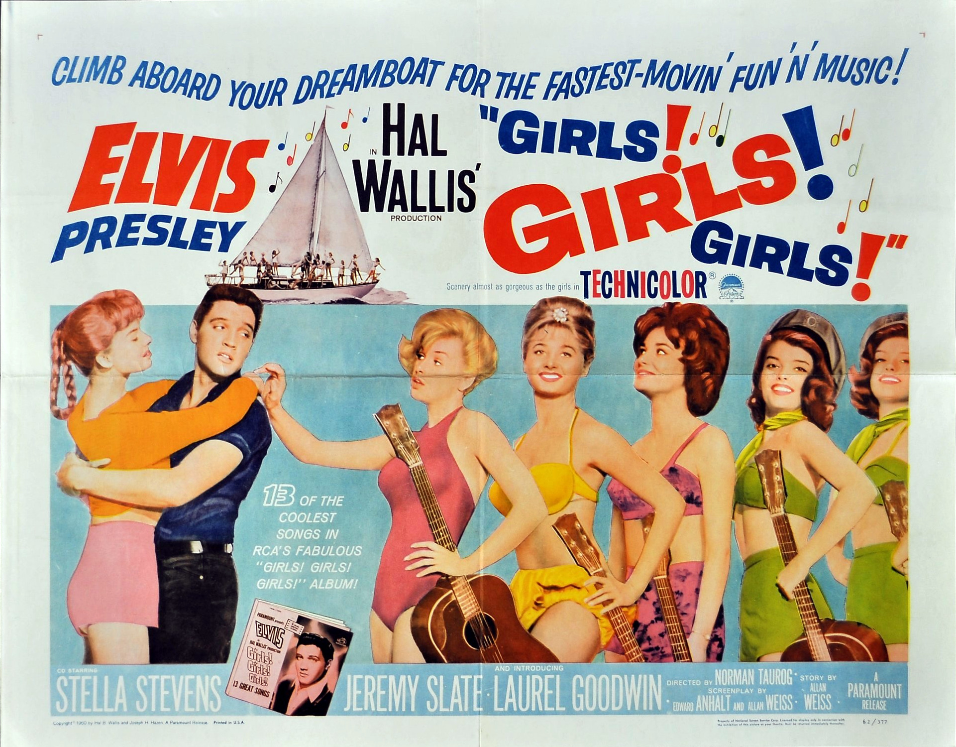 Low-resolution reproduction of poster for the film Girls! Girls! Girls! (1962), directed by Norman Taurog, featuring star Elvis Presley